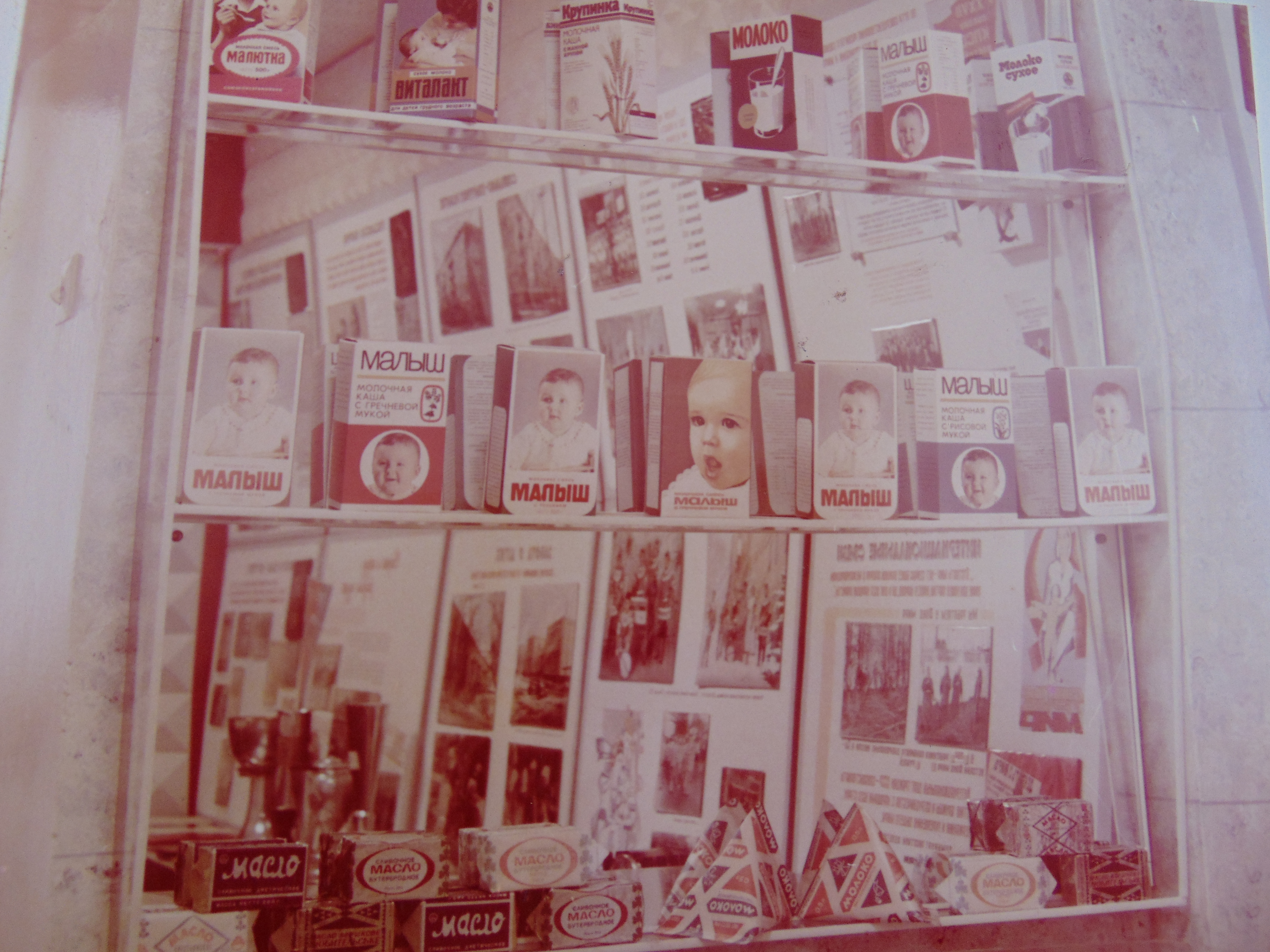 Асортимент продукції Хорольського мококонсервного комбінату дитячих продуктів